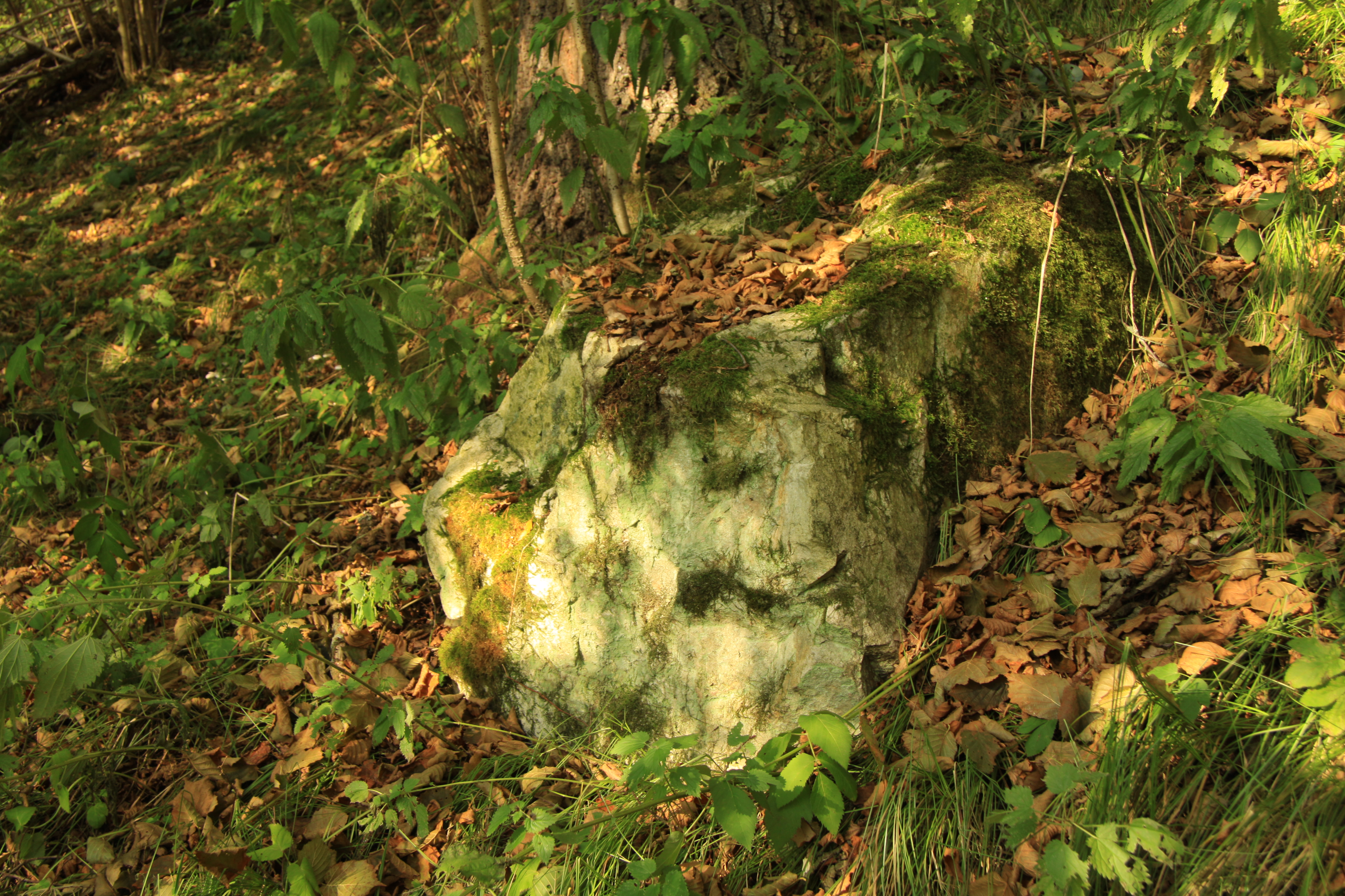 Nature reserve Dobročkovské hadce near Dobročkov village partly lying on the area of CHKO Blanský les, Prachatice District, Czech Republic Project: Chráněná území.